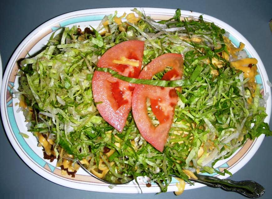 Taco Rice at Parlor Senri（Plan view）